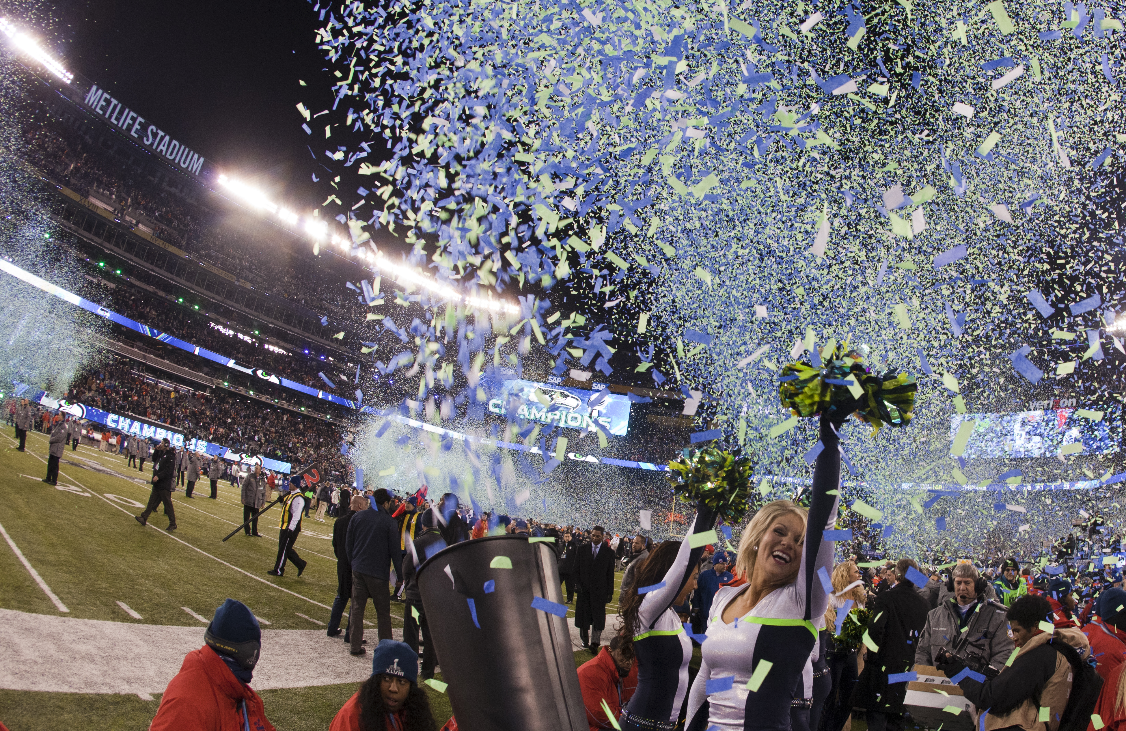 Confetti is shot out in the air as the Seattle Seahawks win Super Bowl XLVIII